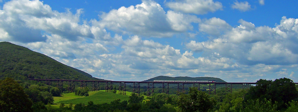 Moodna Viaduct viewed from Orrs Mills road and Jackson Avenue in Cornwall, NY, with passenger train in act of crossing.